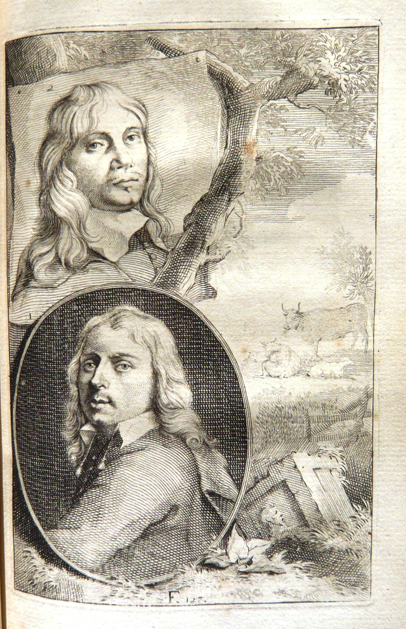 Schouburg Plate F- Paulus Potter and Jacob van der Does of Part 2 of Arnold Houbraken's Schouburg from 1719